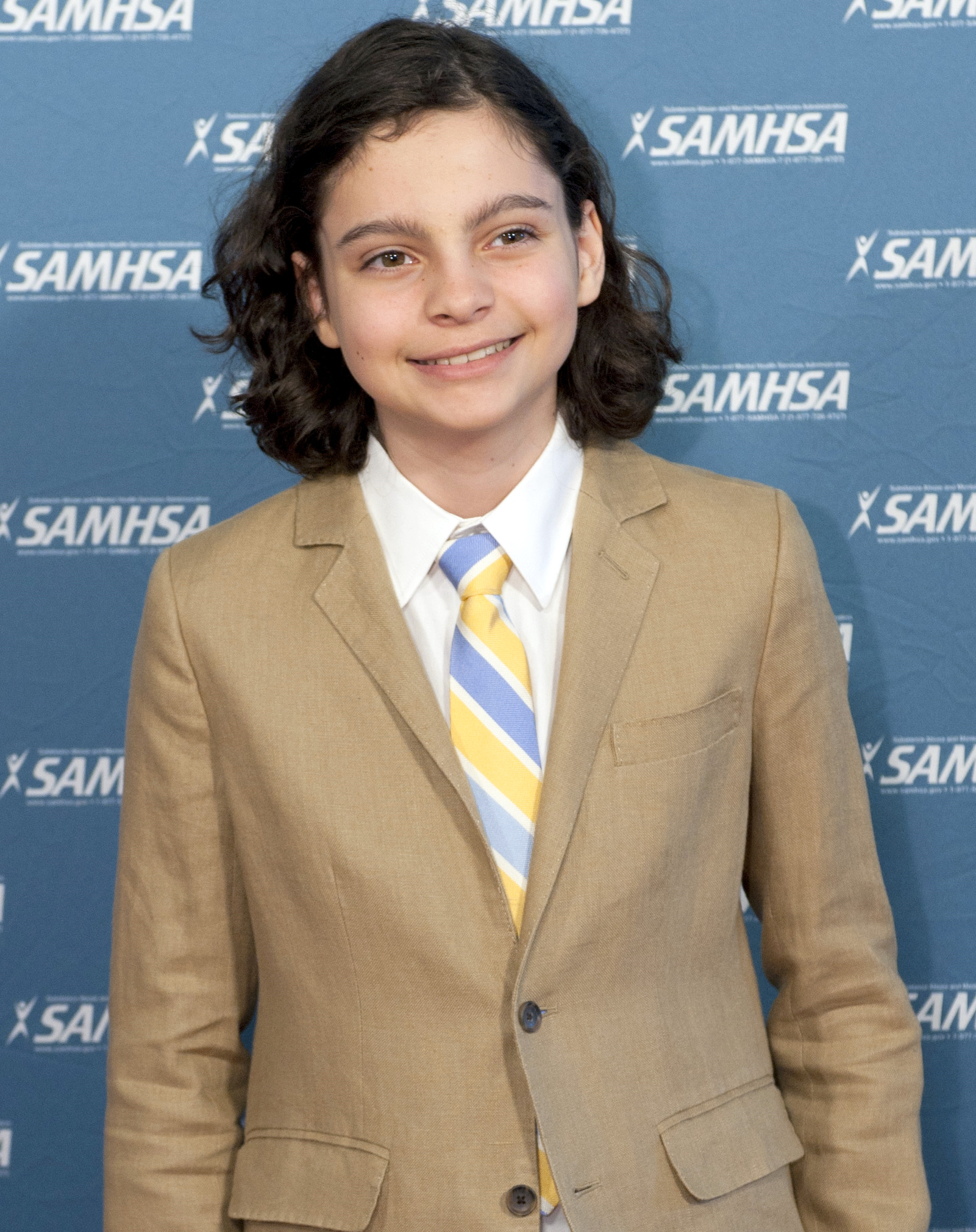 Max Burkholder at the 2011 Voice Awards.